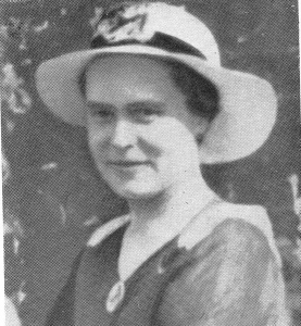 Photograph of the Finnish writer Aino Thauvón-Suits (1884–1969).